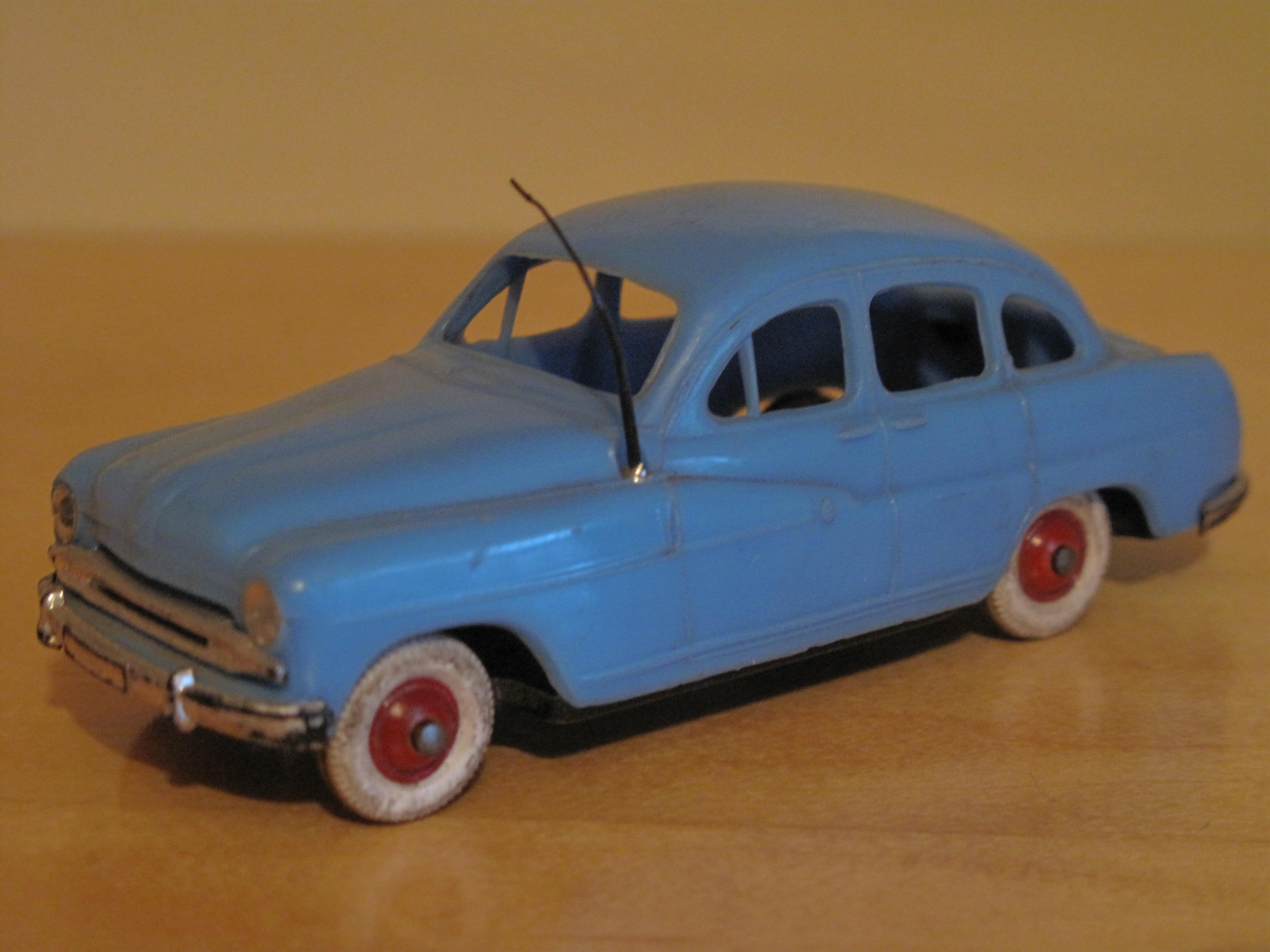 Model Norev of Vedette 54.